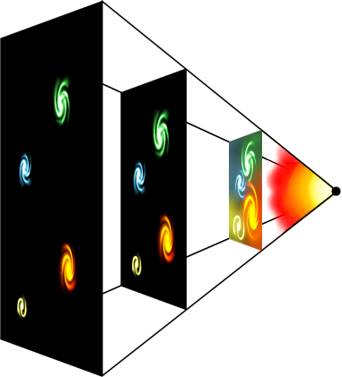 From Image:Big_crunch.png According to the Big Crunch theory, the universe will end in an infinitely dense singularity.